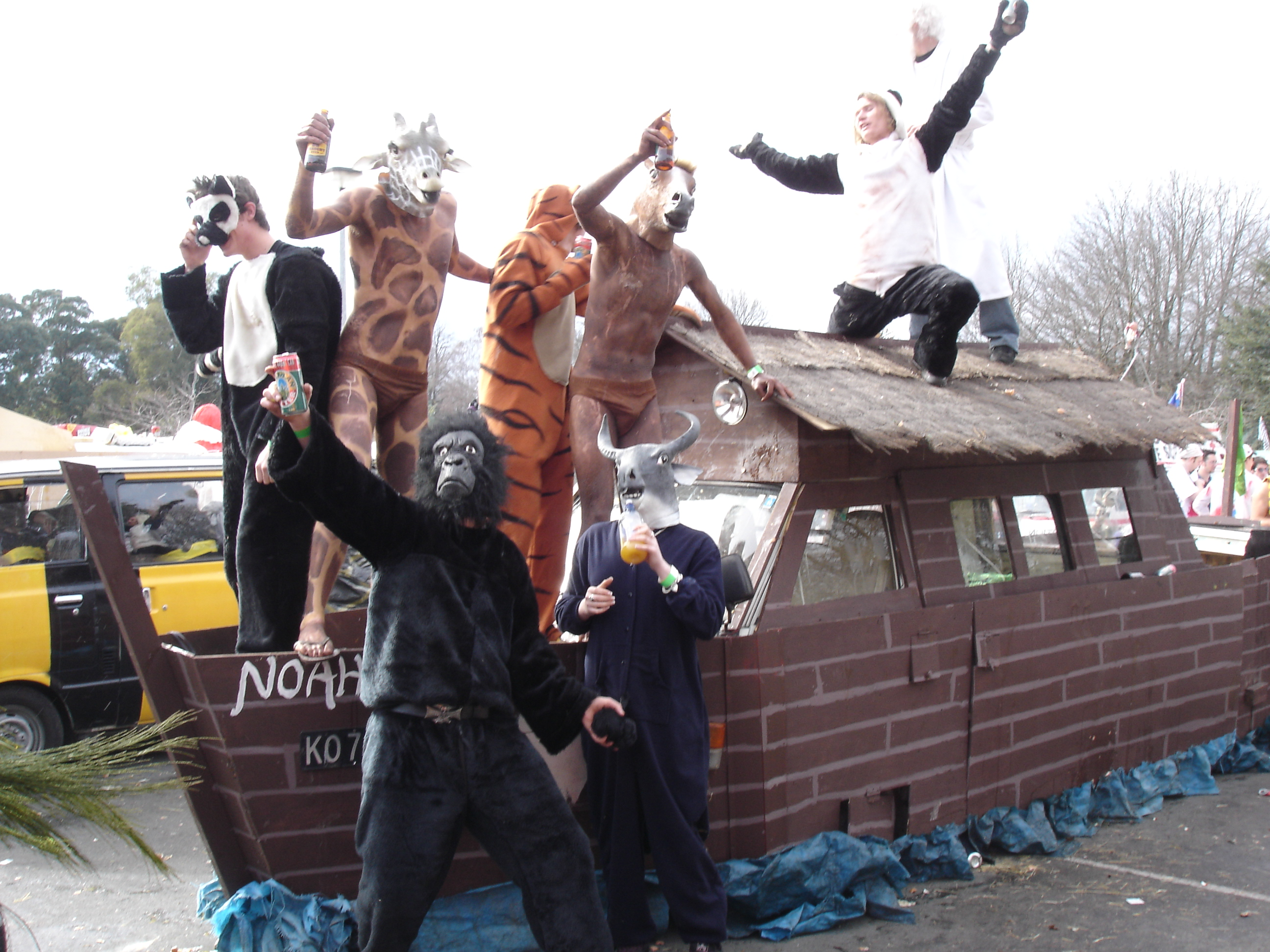 Photo taken and owned by members of Noah's Ark